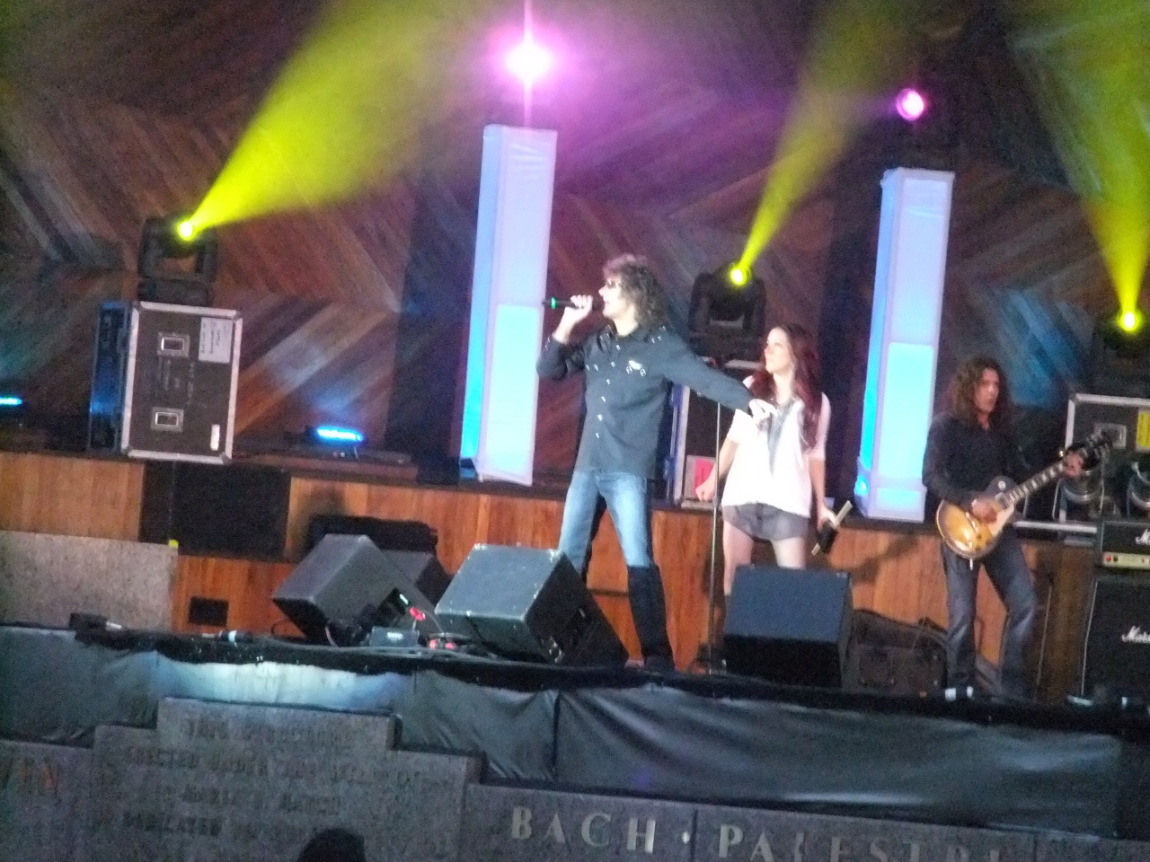 Mickey Thomas and Starship:70s-80s Rock-Boston, Mass. June 16, 2012 Mickey Thomas and Starship--big hits "We Built this City", "Jane", "Sarah", "Nothing Is Going To Stop Us Now"-and Mickey Thomas with The Elvin Bishop Band-big hit "Fooled Around and Fell In Love". Opening act was 60s cover band The Paisley Project.